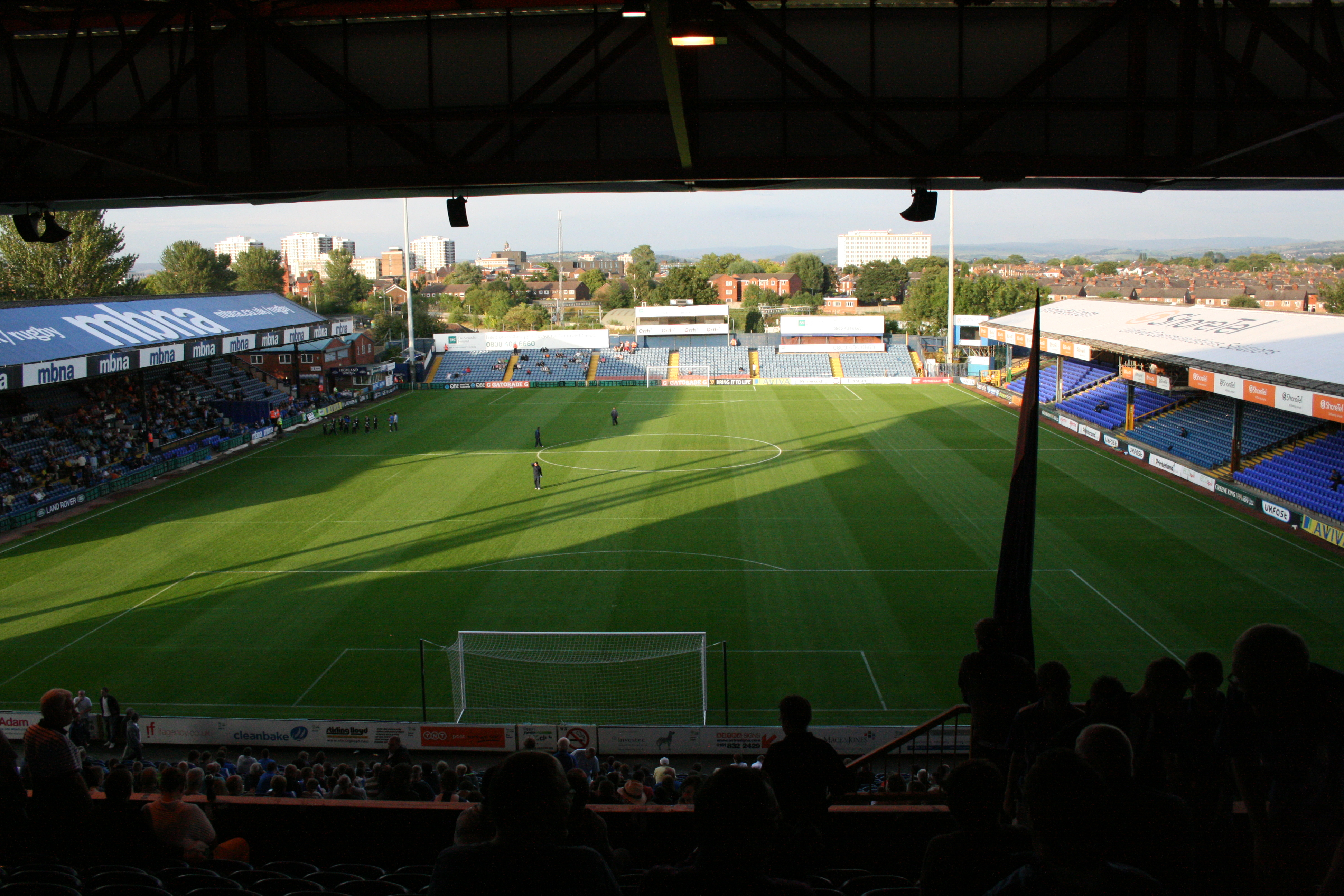 View from the Cheadle End in August 2011.